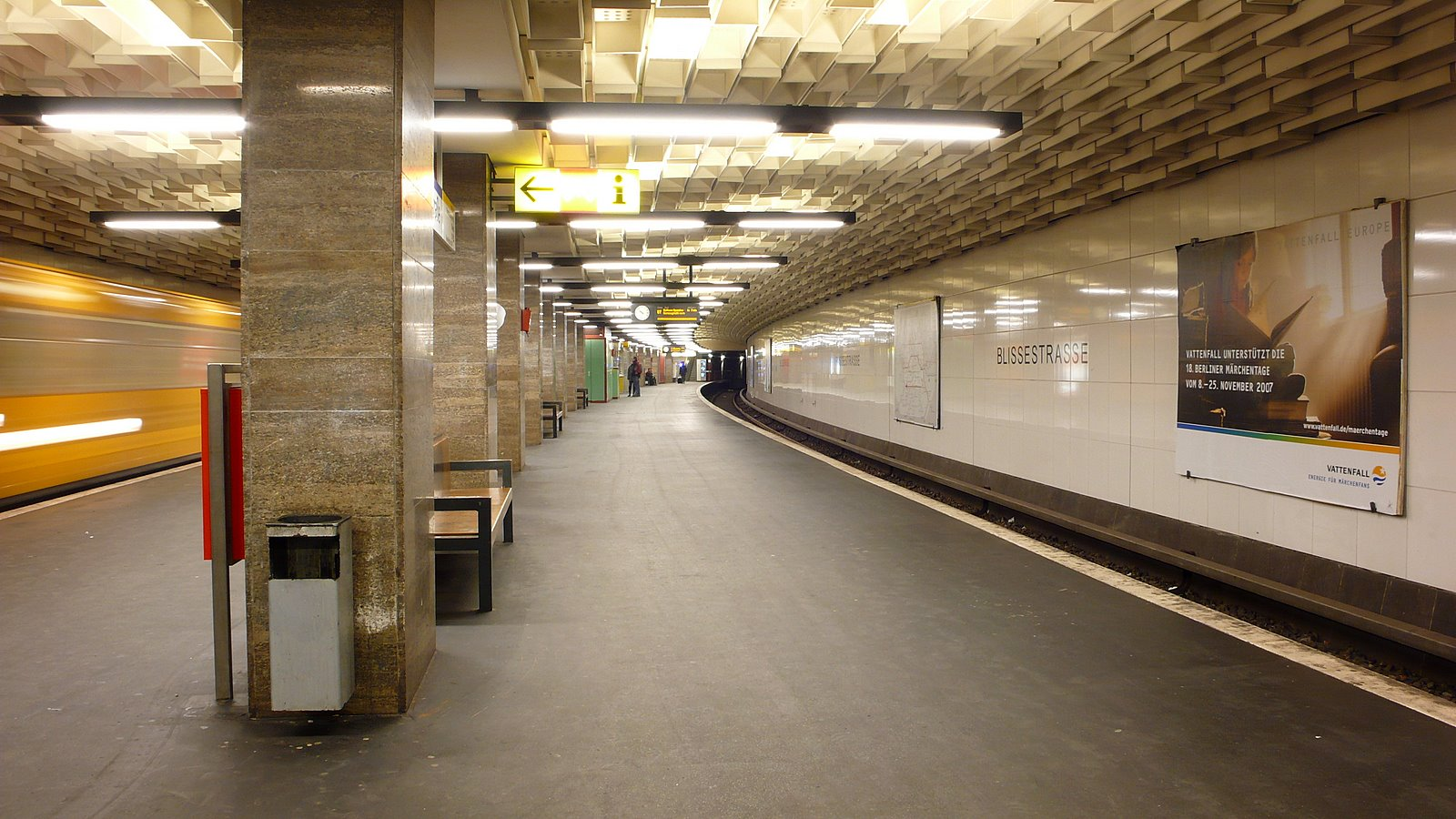 Subway station Blissestr. Berlin